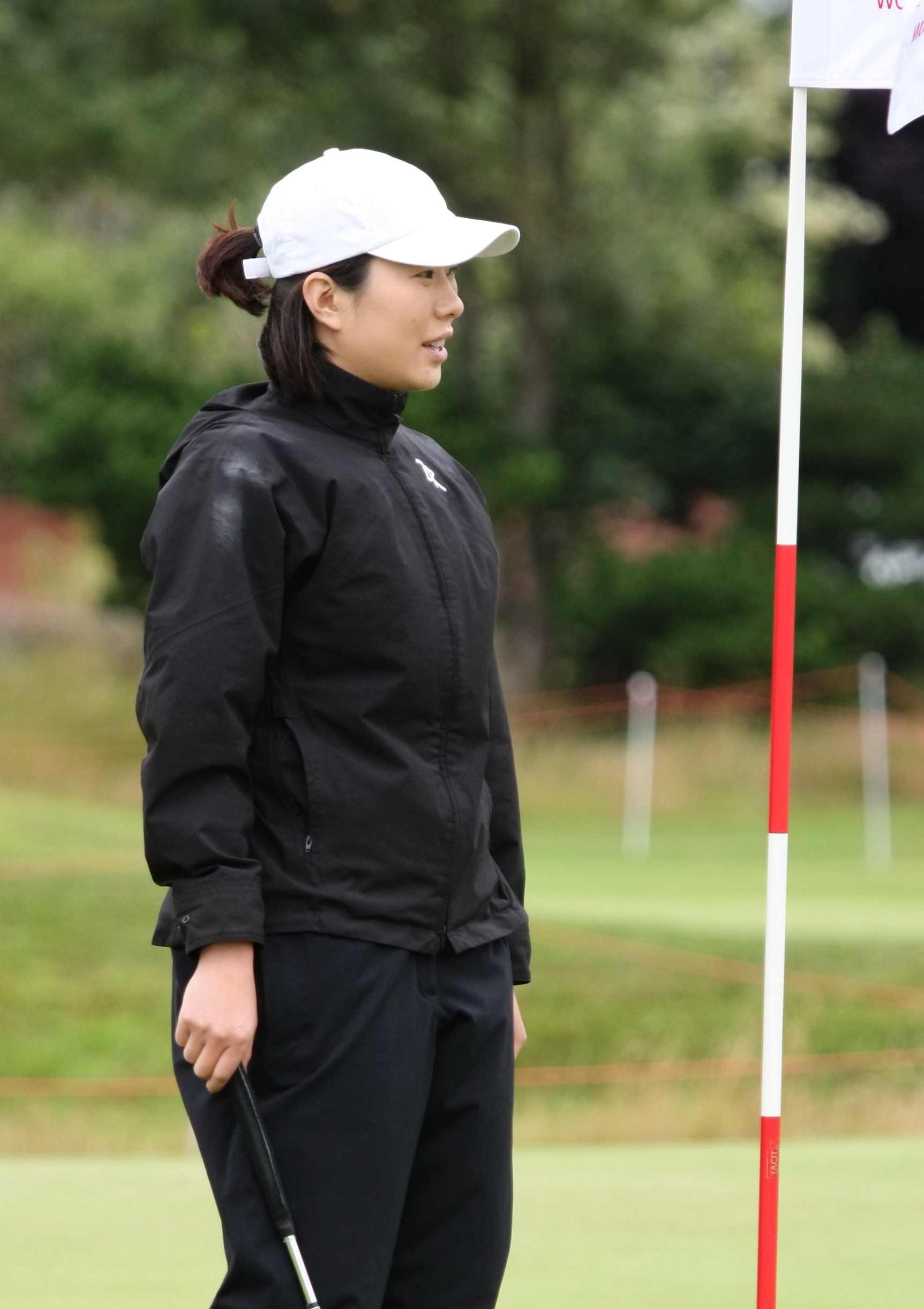 LYTHAM ST ANNES, UNITED KINGDOM - JULY 29: Shi Hyun Ahn of South Korea on the 4th green during third practice round before 2009 Ricoh Women's British Open held at Royal Lytham & St Annes on July 29, 2009 in Lytham St Annes, England. (Photo by Wojciech Migda)